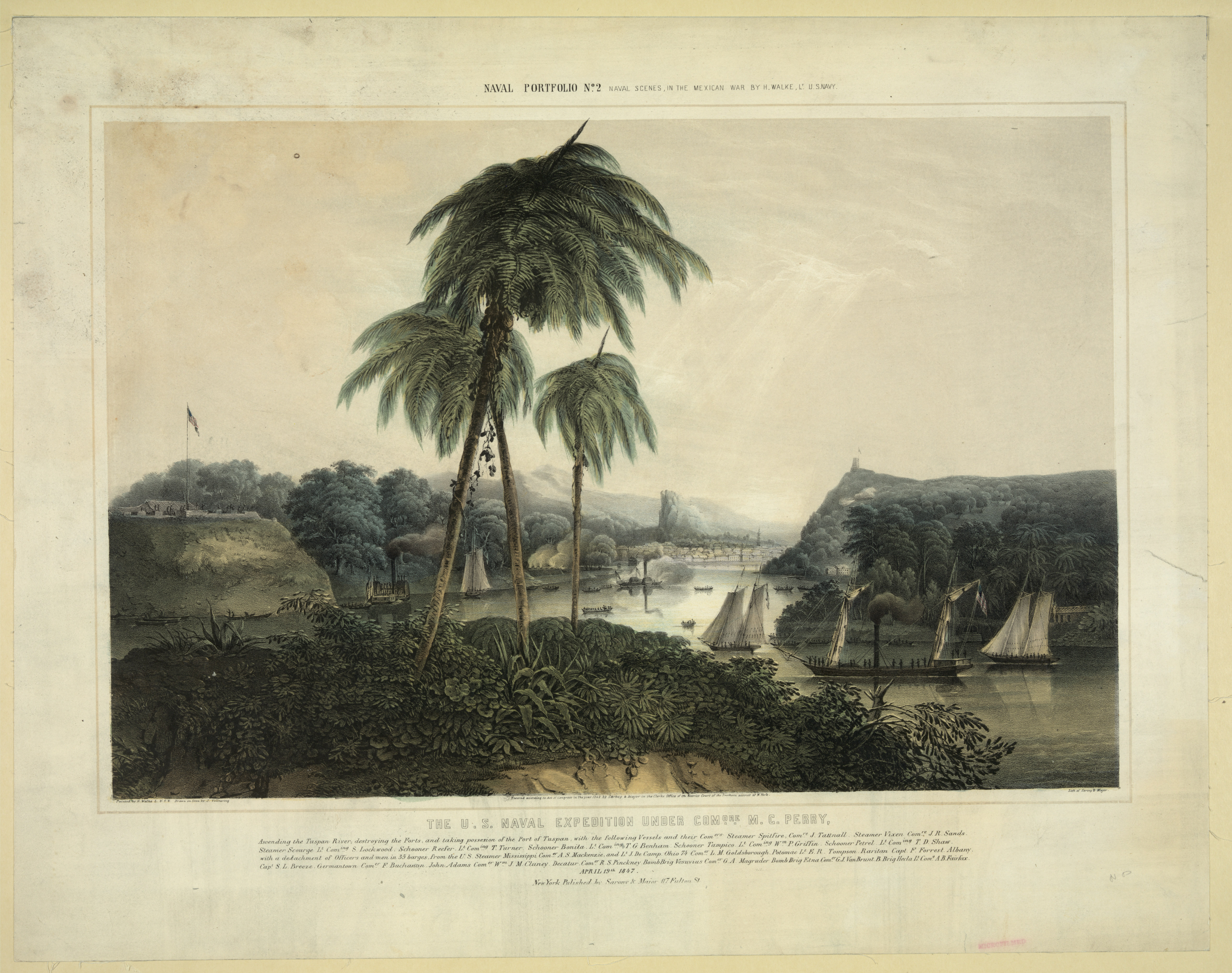 Title: The U.S. naval expedition under Com..ore M.C. Perry, ascending the Tuspan River ; destroying the forts, and taking possesion [sic] of the port of Tuspan [...] / painted by H. Walke L.U.S.N. ; drawn on ston [sic] by J. Vollmering ; lith. of Sarony & Major. Abstract/medium: 1 print : lithograph, color. The U.S. naval expedition under Com..ore M.C. Perry, ascending the Tuspan River ; destroying the forts, and taking possesion [sic] of the port of Tuspan [...] with the following vessels and their Commanders... ...Steamer Spitfire, Steamer Vixen, Steamer Scourge, Schooner Reefer, Schooner Bonita, Schooner Tampico, Schooner Petrel, ... and men in 35 barges, from the U.S. Steamer Mississippi, Ohio 74, Potomac, Raritan, Albany, Germantown, John Adams, Decatur, Bomb Brig Vesuvius, Bomb Brig Etna, Bomb Brig Hecla. April 19th 1847.